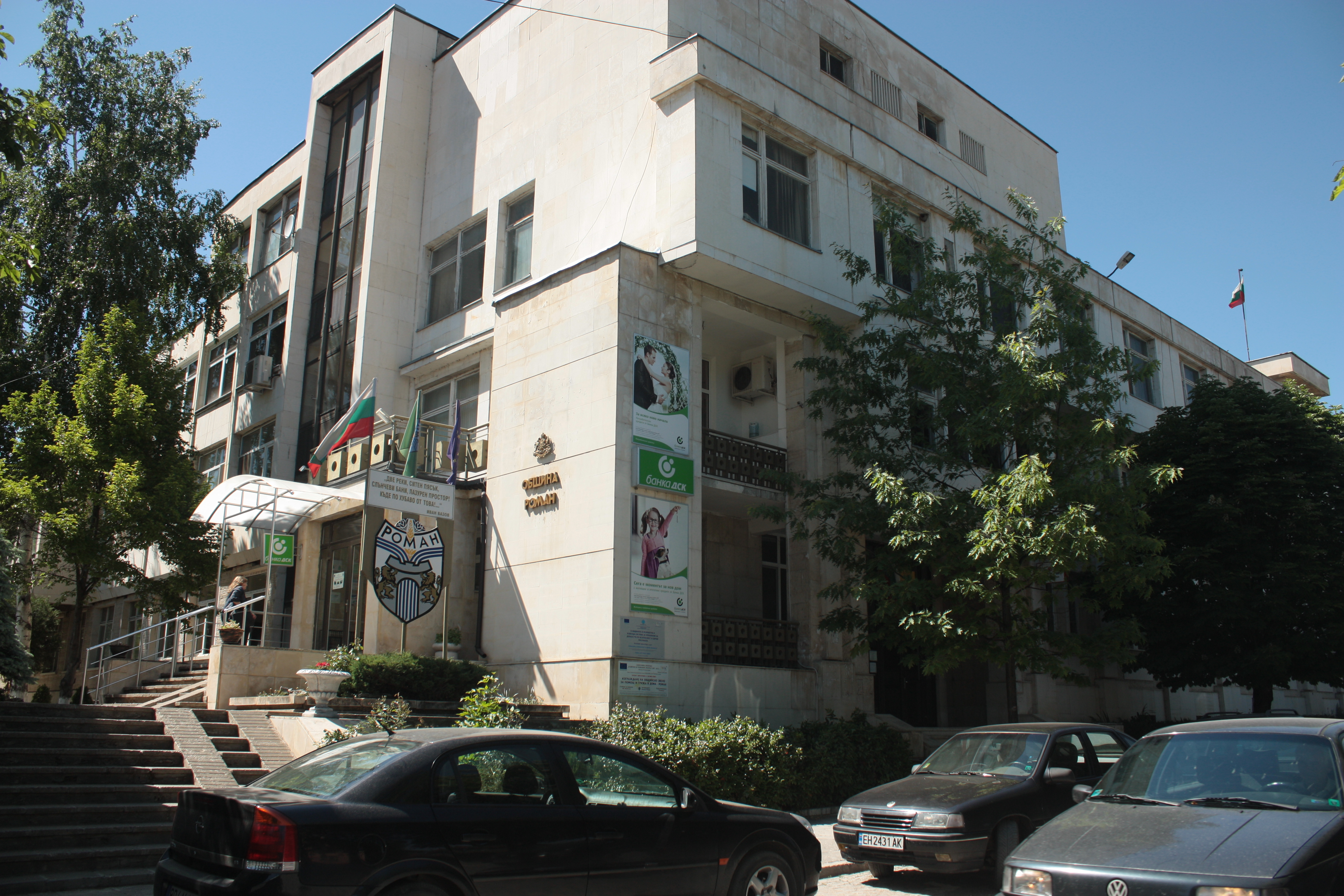 Roman Municipality Hall, Bulgaria